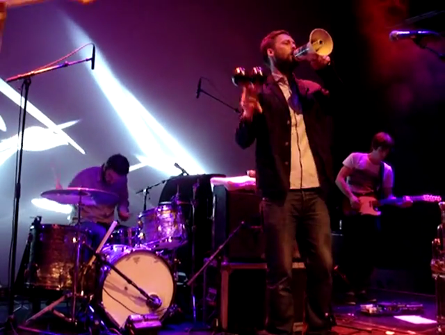 The Bees: Every Step's A Yes - Dutch Tour 2011. Live at Motel Mozaique Festival - Rotterdam, The Netherlands. April 9th 2011; Who Cares What The Question Is?